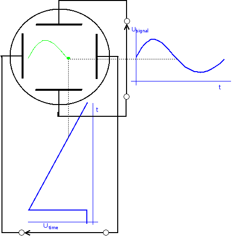 This picture shows how the anologue (cro) oscilloscope displaying works